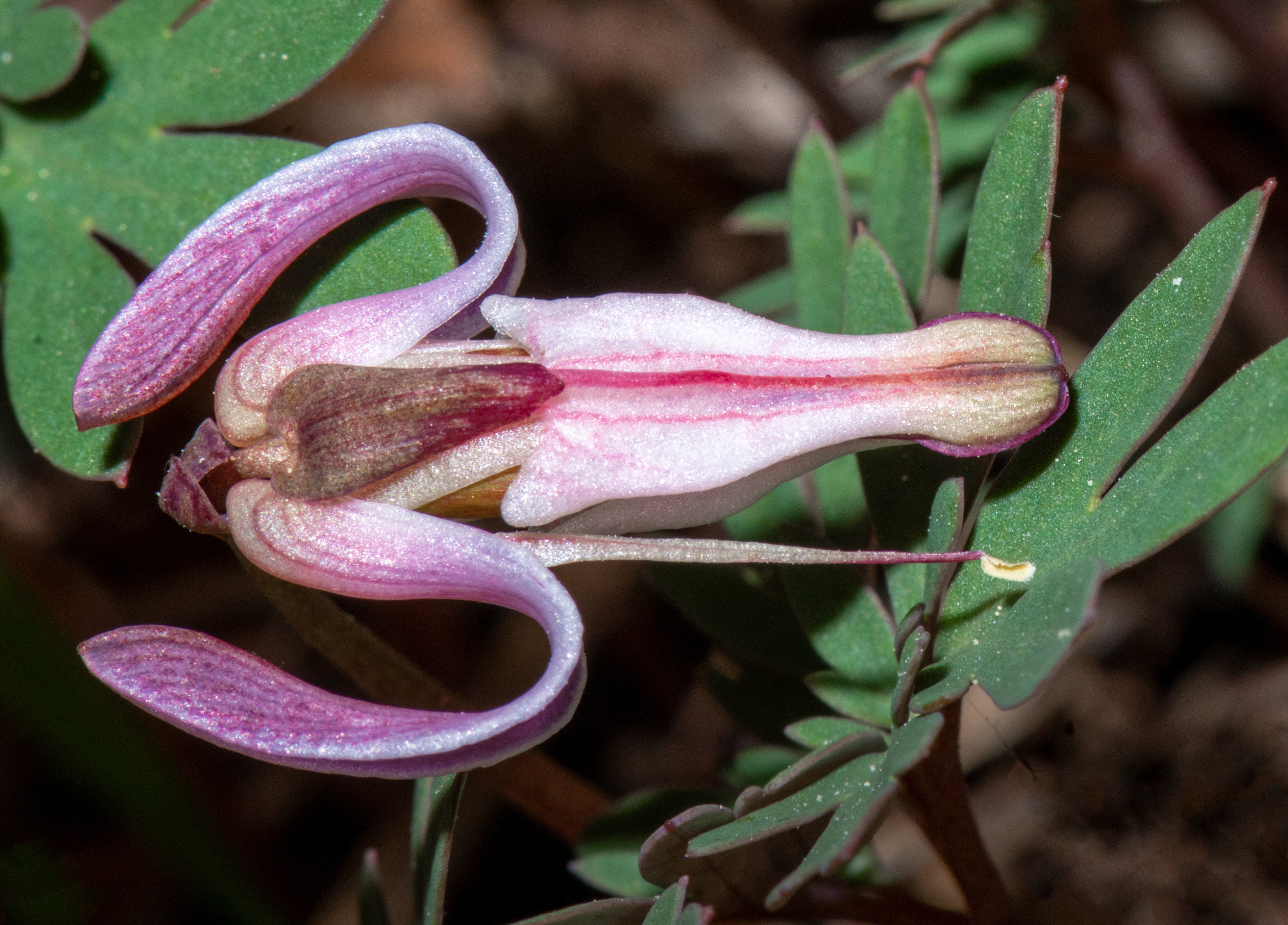 Dicentra uniflora from Modoc National Forest, California, USA.